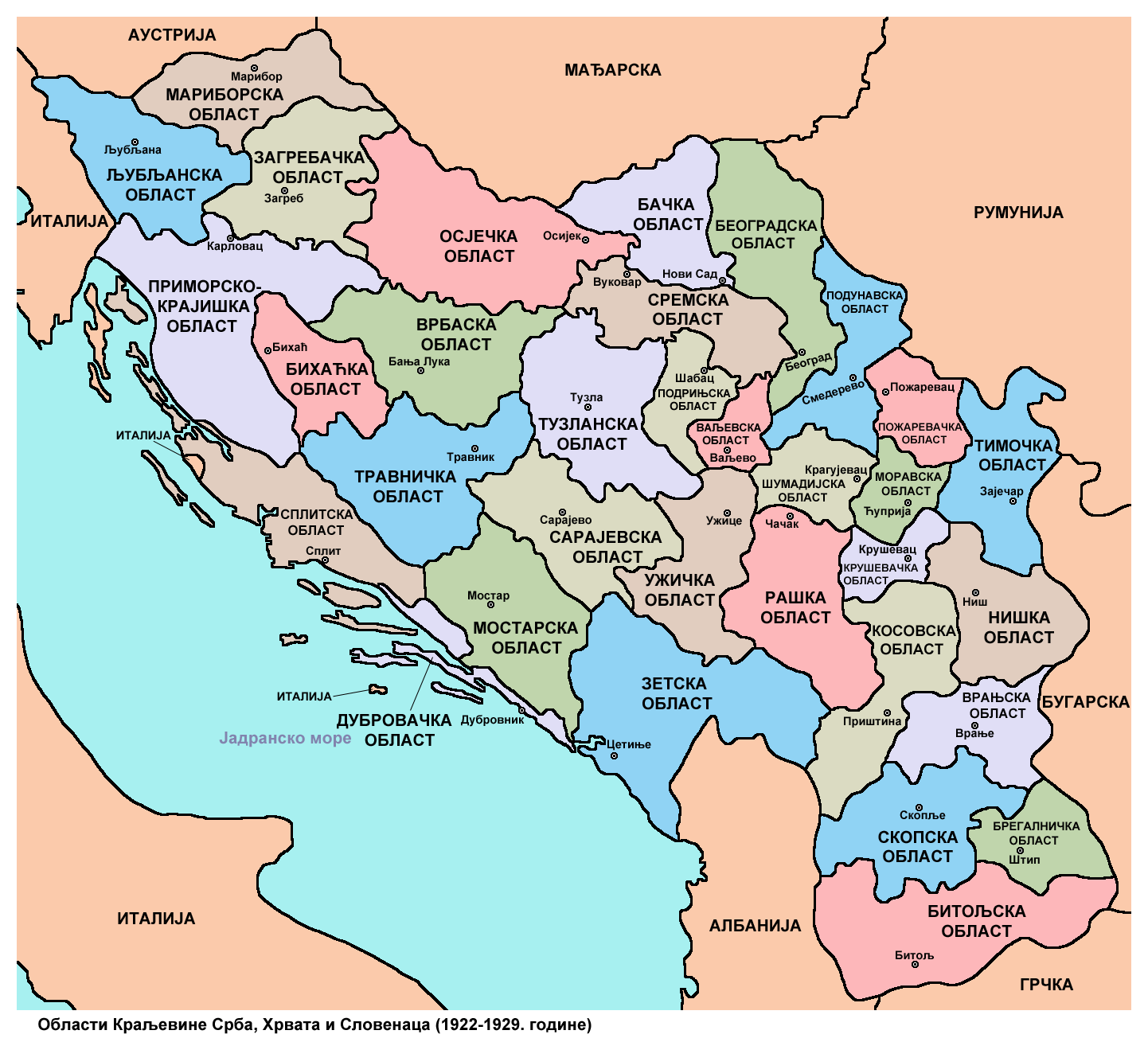 Oblasts of the Kingdom of Serbs, Croats and Slovenes (1922-1929).